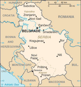 Serbia from the CIA World Fact Book.